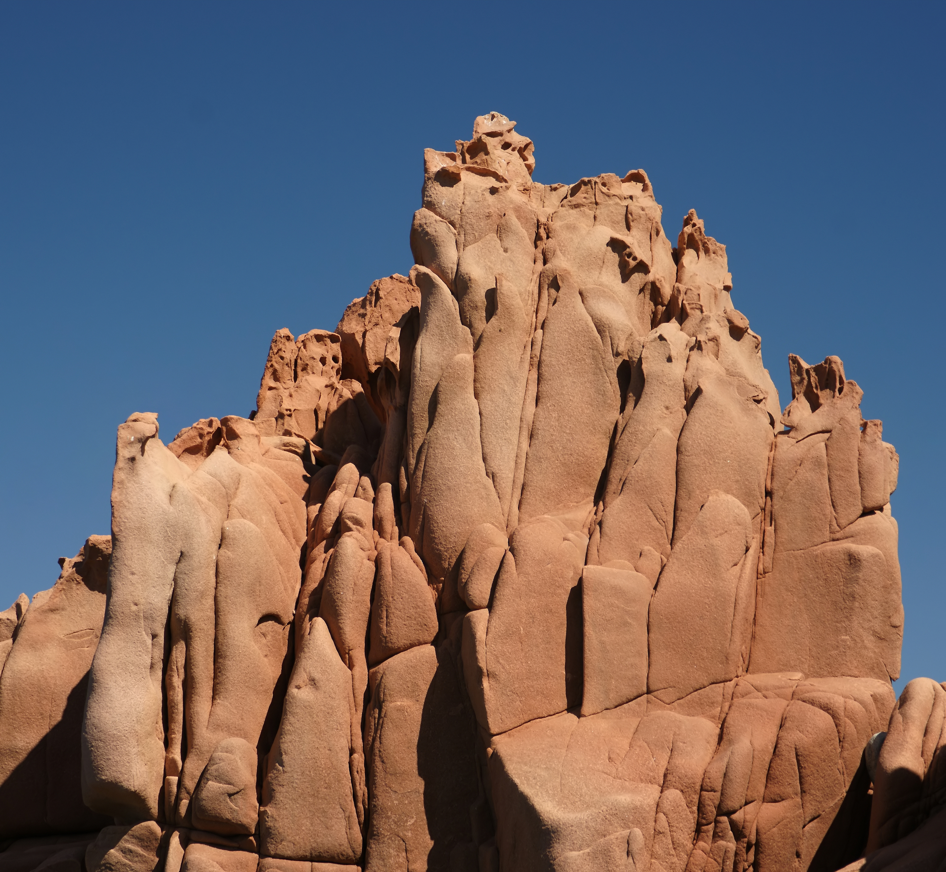 Red granite at Arbatax in Ogliastra province, Sardinia, Italy